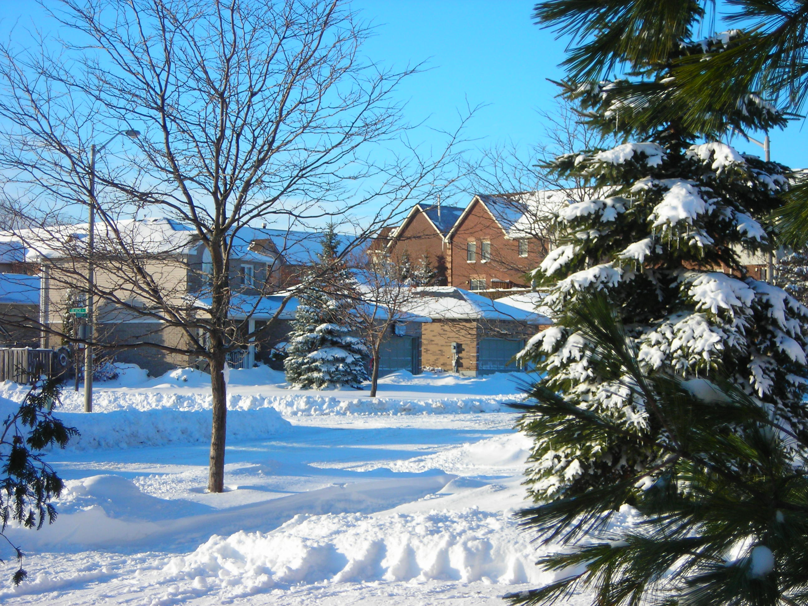 Picture of a residential block in South Barrie.